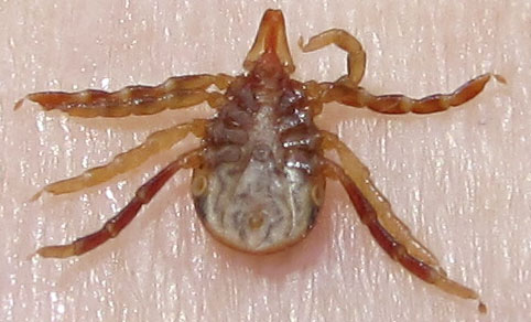 Tick found on person, acquired Royal National Park Coast Track between Otford and Wattamolla, NSW, Australia